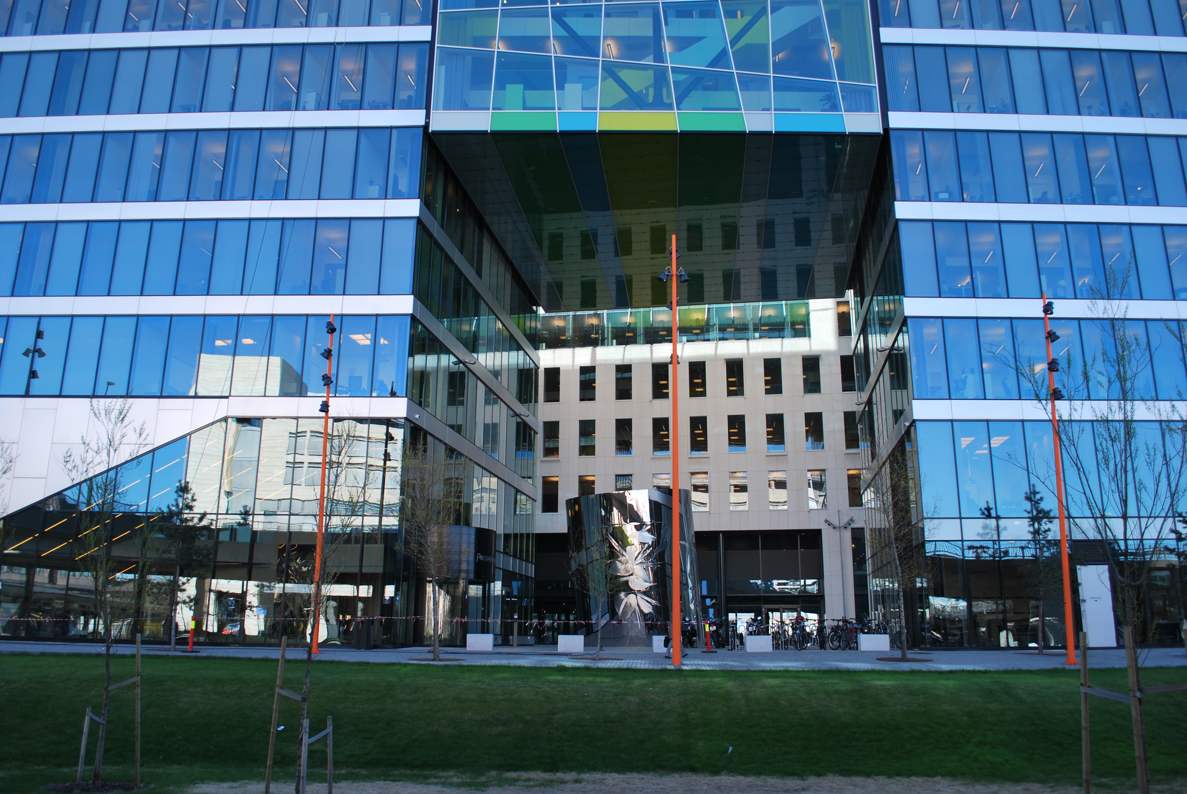 Facade, PWC Building, Barcode Project, Bjørvika, Oslo